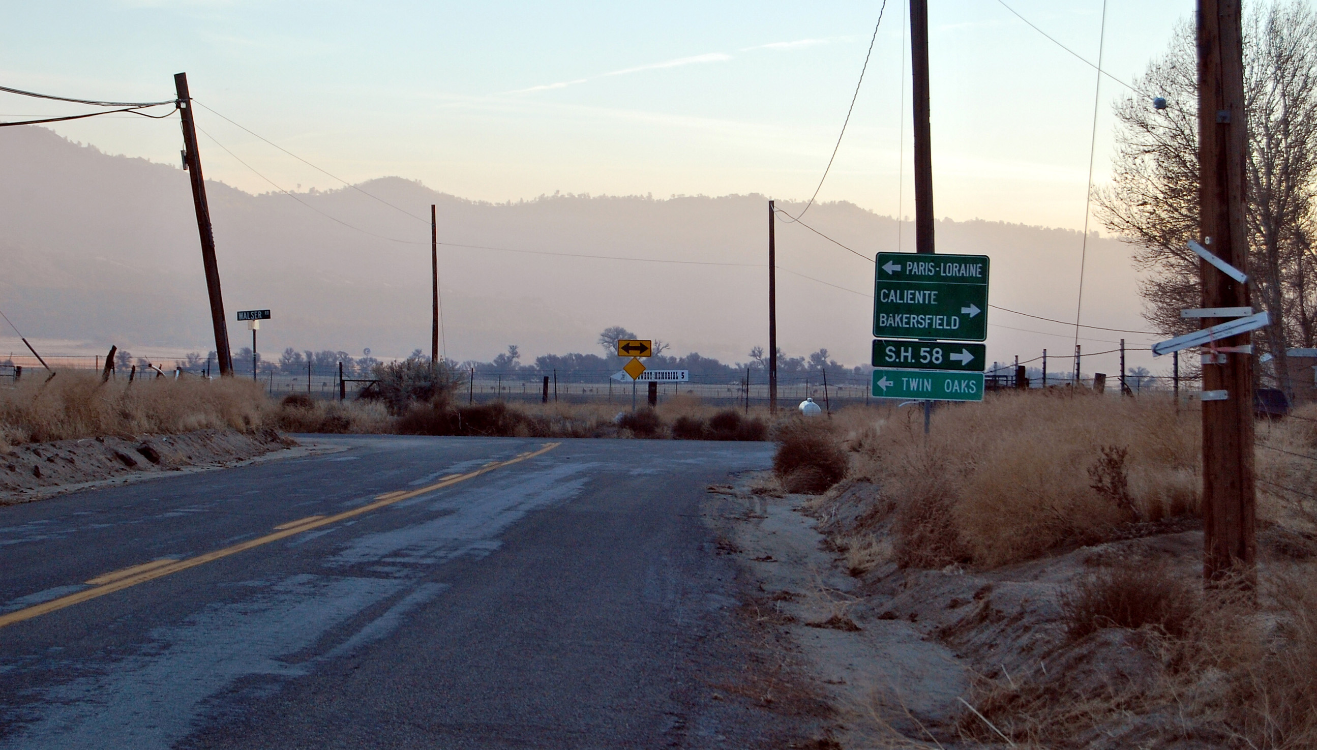 Terrain and landscape along Caliente-Bodfish Road, Walker Basin, California, at the intersection of Walser Road in Walker Basin. View on a winter evening at about 3,400 feet AMSL. Summit above sign is believed to be unnamed 4,315-foot peak